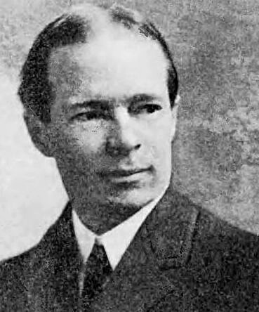 Dr. Henry C. Cowles, Vice-president of the American Association for the Section of Botany, professor of botany in the University of Chicago.